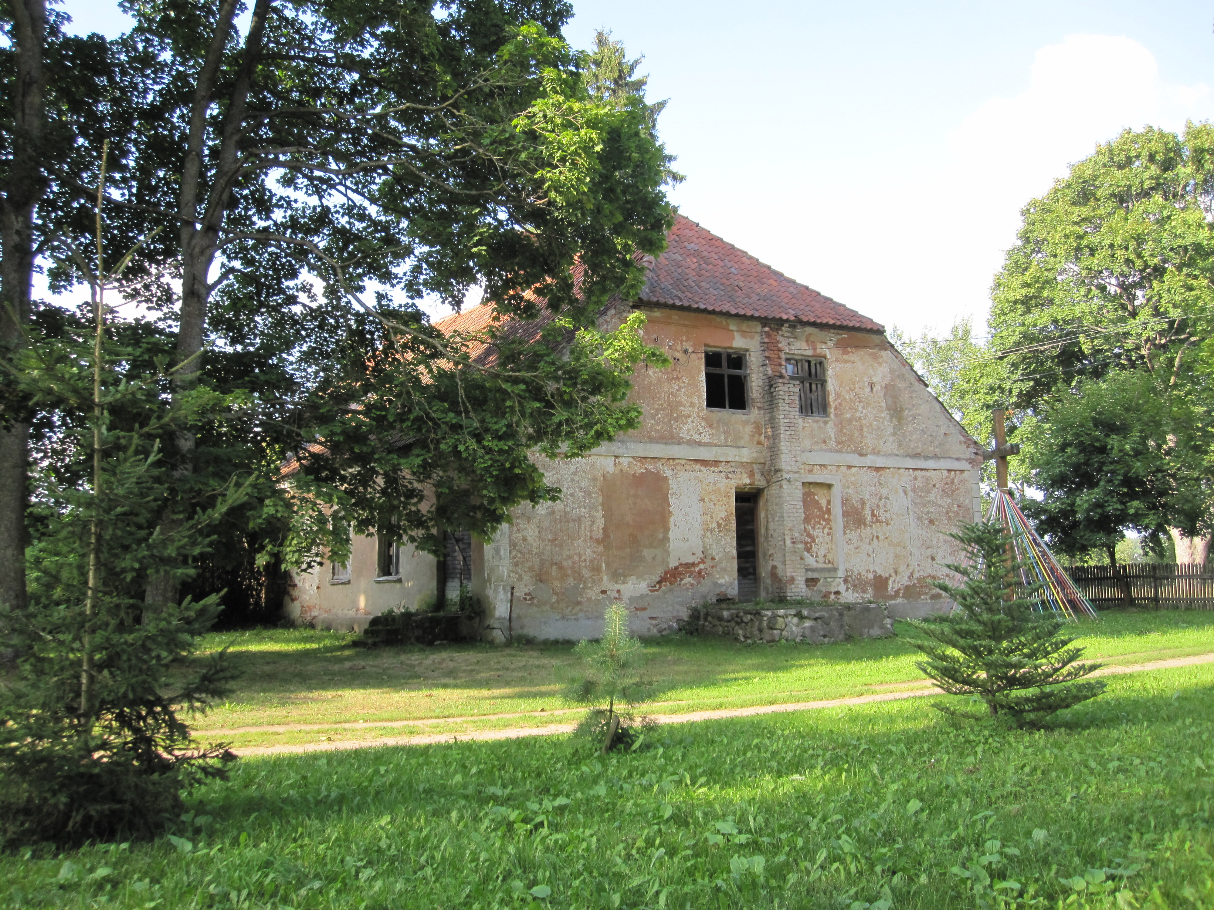 Jerutki - ruined building near church